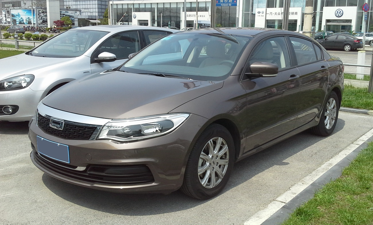 Qoros 3 sedan photographed in Shanghai, China.